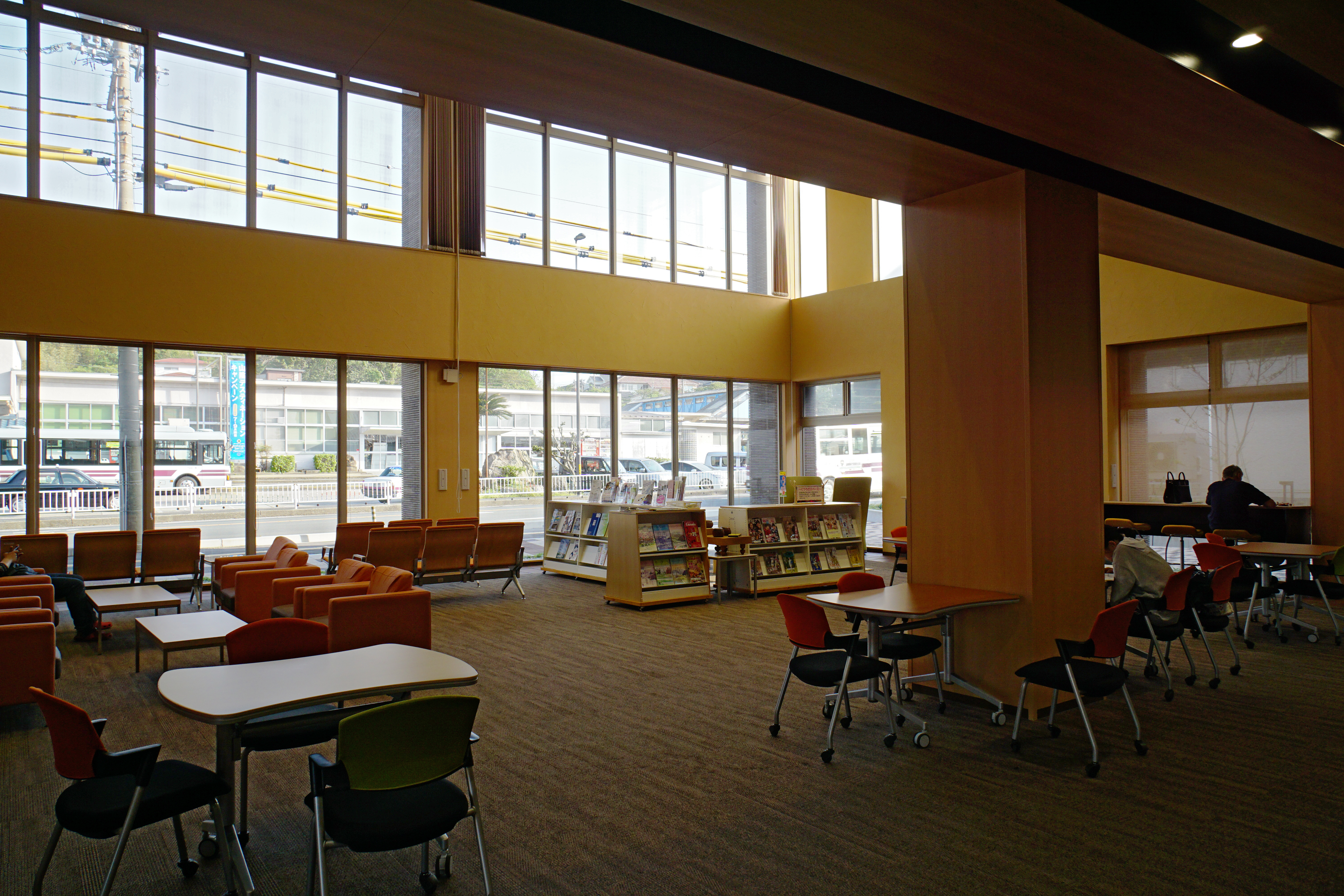 Pallet_Gotsu, Gotsu, Shimane prefecture, Japan